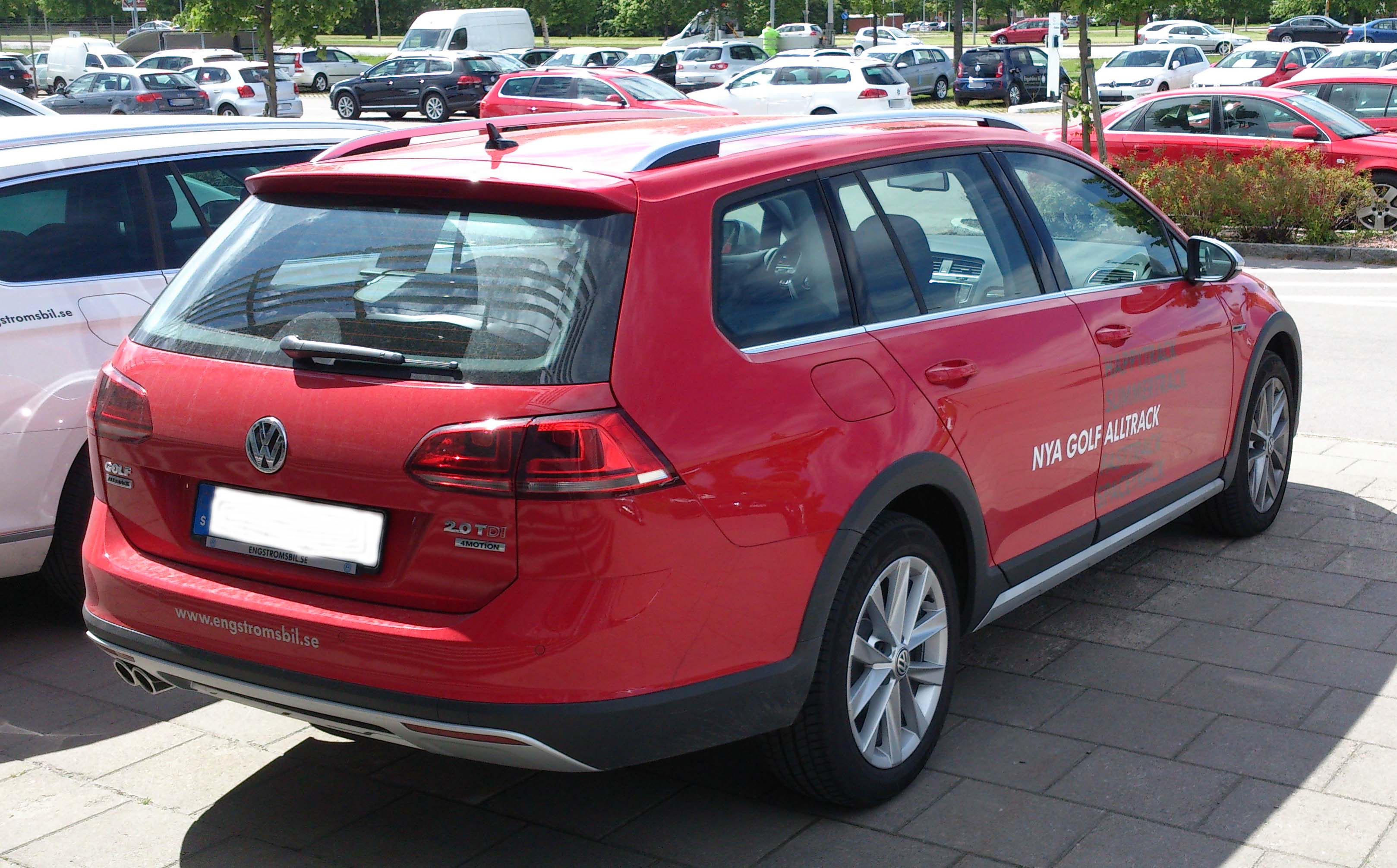 2015 Volkswagen Golf Alltrack